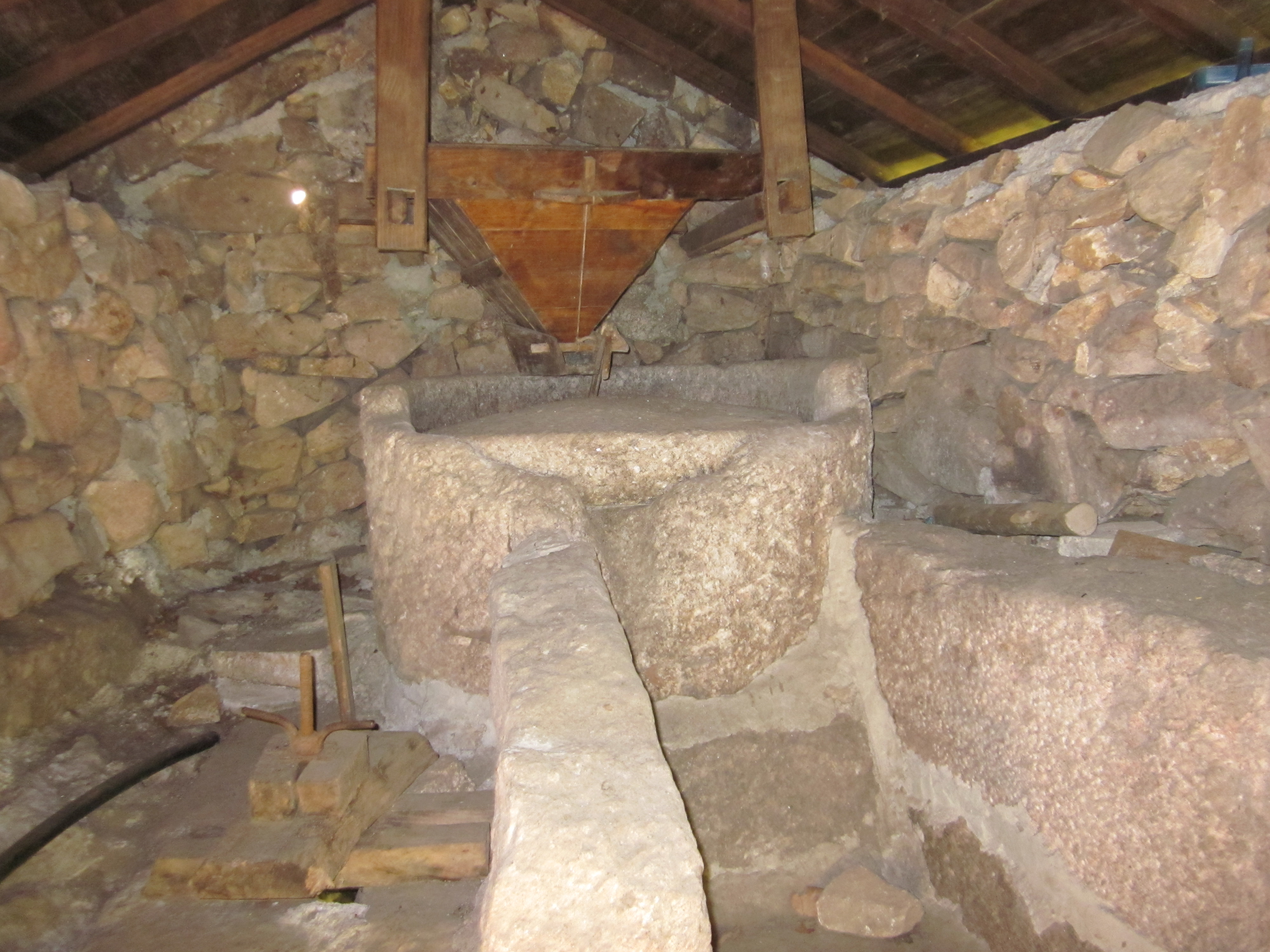 Interior de um dos moinhos do Circuito Turístico dos Moinhos de Argontim